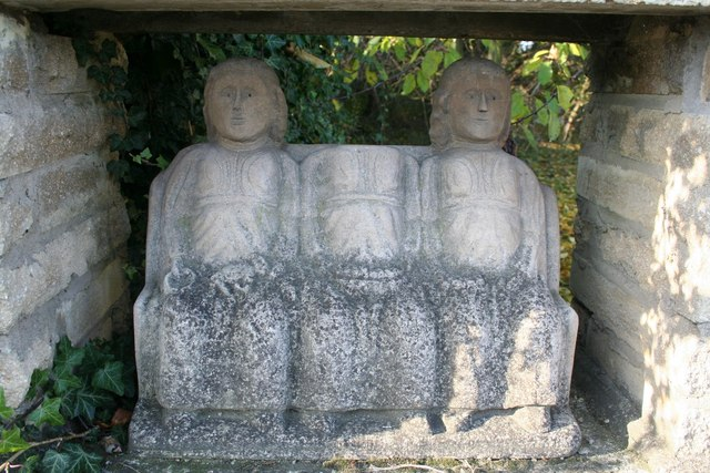 The Three Mother Goddesses Set in a niche in the wall of St.Martin's church is this curious replica of the three mother goddesses Roman sculpture discovered in 1831 whilst digging a new grave, the original resides in Grantham Museum. The sculpture is 1ft 7ins long and 1ft 4ins high showing three seated figures depicting the Romano-Celtic Mother Goddess in triple form representing the three aspects of the one divinity, similar to the holy trinity. The three goddesses are seated on a long couch with upright sides and back, all appear to be pregnant and wear long dresses gathered up under the bust. Looking at the sculpture, the figure on the right holds a loaf of bread and a corn measure, the central figure holds a shallow basket of fruit and the left-hand figure holds a dish with piglet and a 'patera' (bowl) in her right hand. The Roman station of Causennae was established here as early as 43AD although the date of the sculpture is unknown it is undoubtedly Roman.